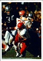 A football card from the 1986 Jeno's Pizza NFL football card stickers set of Kansas City Chiefs running back Robert Holmes rushes the ball against the Oakland Raiders in the 1969 AFL Championship Game. The card is numbered #49 in the set. The back of the card reads: A HISTORIC VICTORY FOR THE CHIEFS Kansas City running back Robert Holmes lunges forward as Oakland linebacker Don Conners struggles to hang on in the 1969 AFL Championship Game. The Chiefs scored 17 consecutive points to overcome an early deficit and win 17-7 in the final AFL title game. Holmes scored the Chiefs' second touchdown on a 5-yard run.